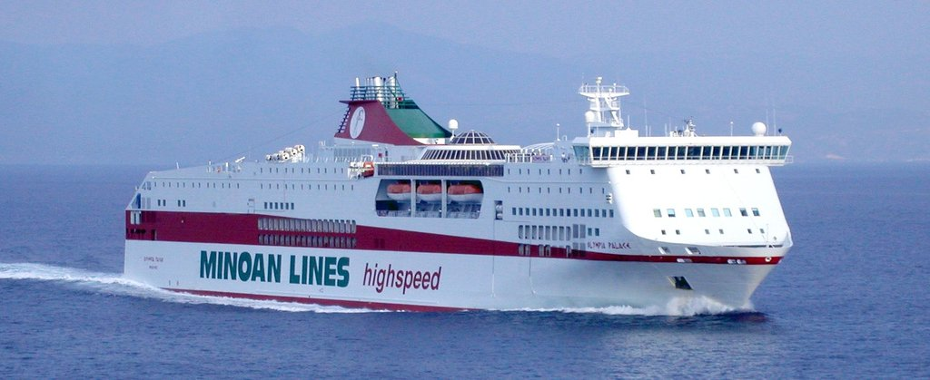 Olympia Palace, Minoan Lines